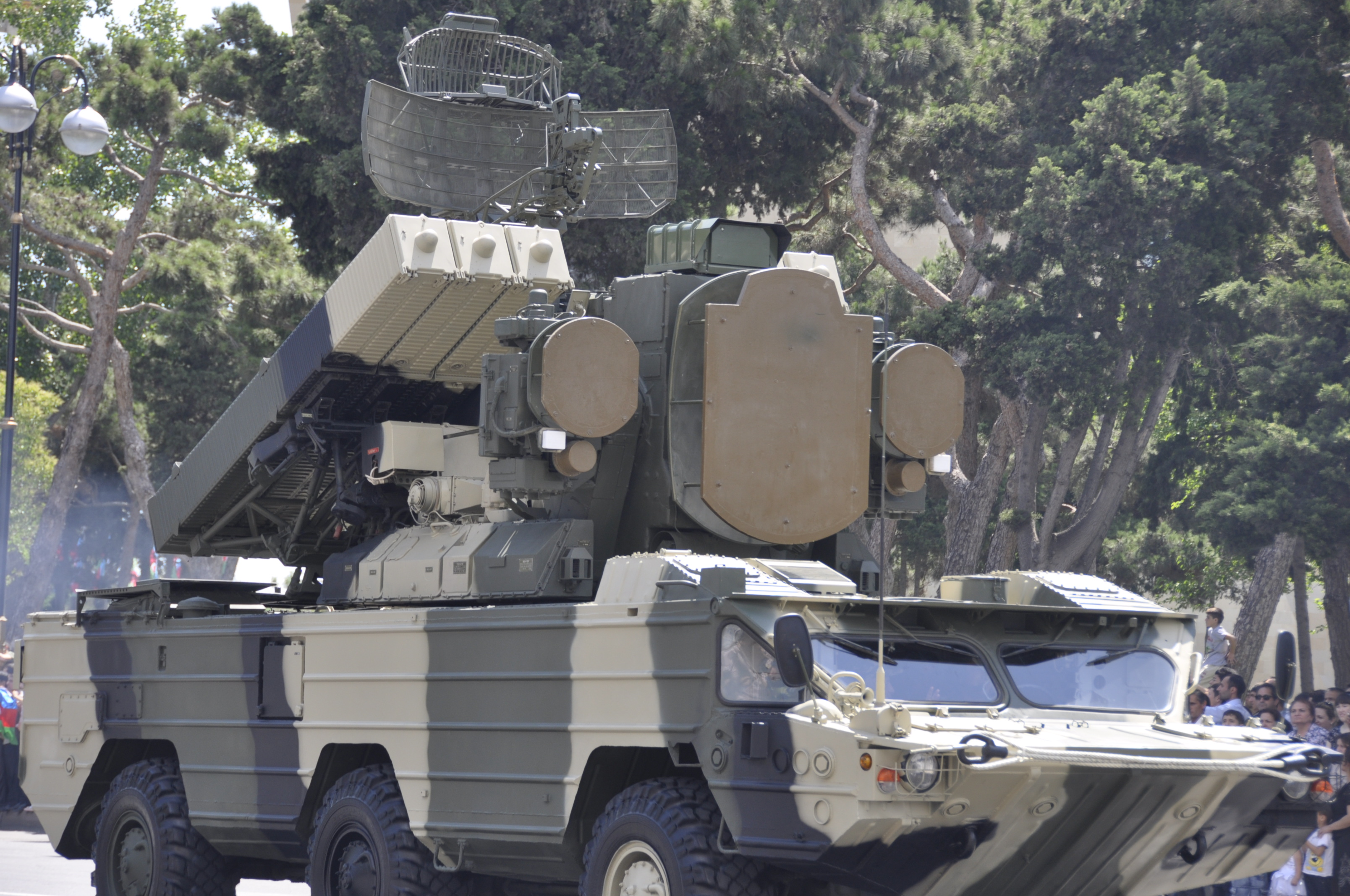 Military parade in Baku on an Army Day